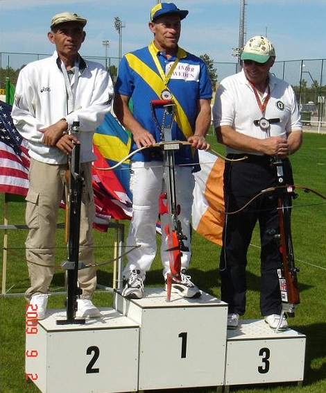 World crossbow shooting association Inc. World Champion 2009 Entroncamento-Portugal Aug. 29 - Sept. 05 Gold: Micky Skottlund, Sweden Silver: Yoshiaki Sugiyama, Japan Bronze: Richard Delaney, Ireland